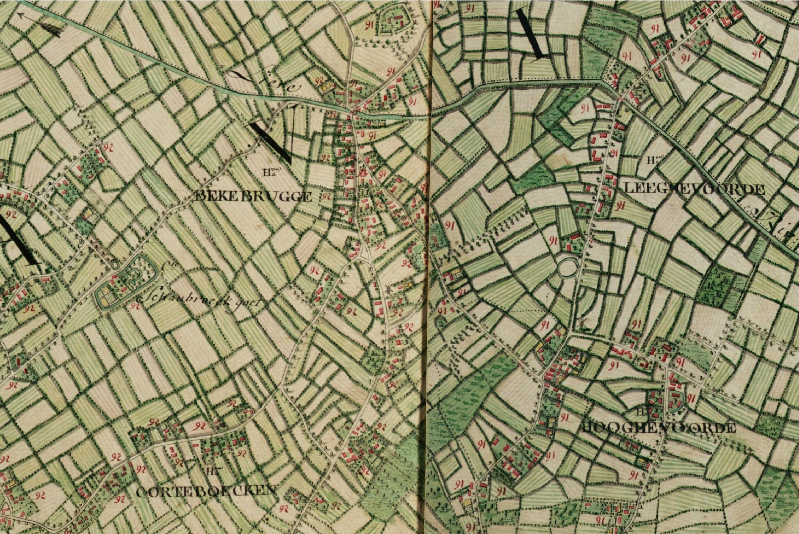 Beke, Waarschoot, Ferraris map